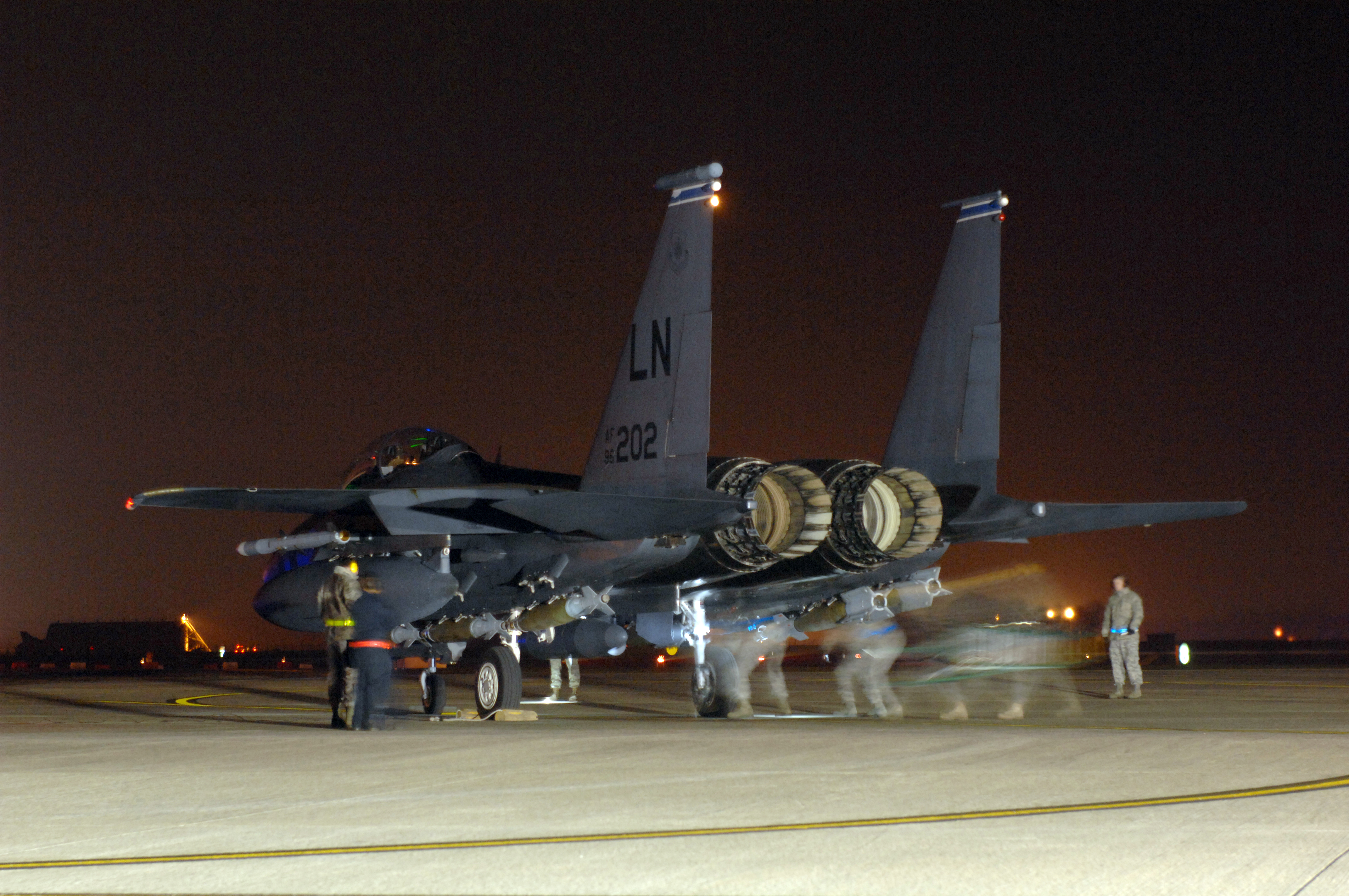 ROYAL AIR FORCE BASE LAKENHEATH, England (March 20, 2011) Maintainers from the 48th Aircraft Maintenance Squadron make final checks on an F-15E Strike Eagle prior to departing RAF Lakenheath, England. Units from the 48th Fighter Wing deployed to support Operation Odyssey Dawn. Joint Task Force Odyssey Dawn is the U.S. Africa Command task force established to provide operational and tactical command and control of U.S. military forces supporting the international response to the unrest in Libya and enforcement of United Nations Security Council Resolution (UNSCR) 1973. (U.S. Air Force photo by Tech. Sgt. Lee A. Osberry Jr./Released)